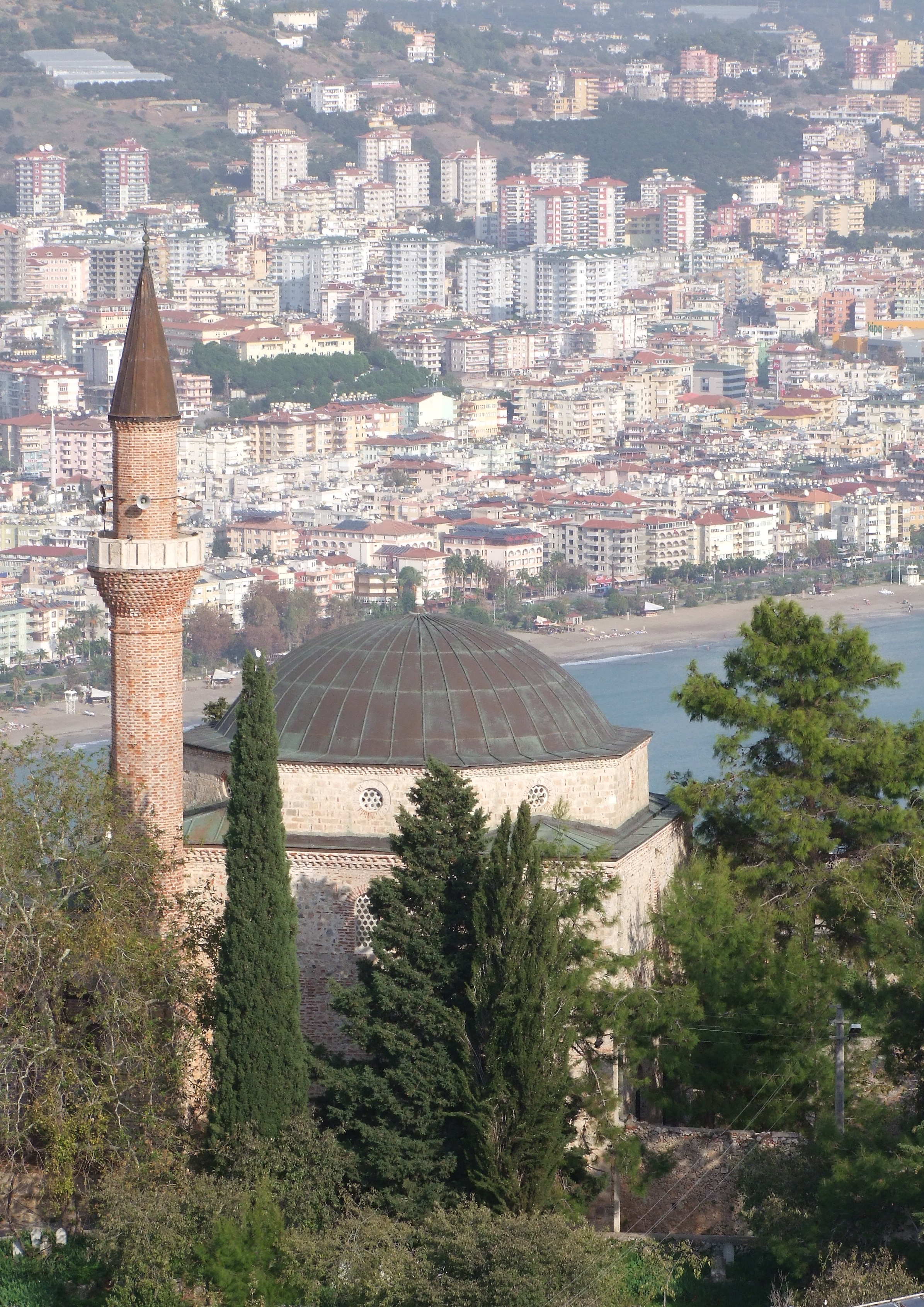 Süleyman mosque on Alanya Castle Hill, as seen from Alanya Castle, Turkey